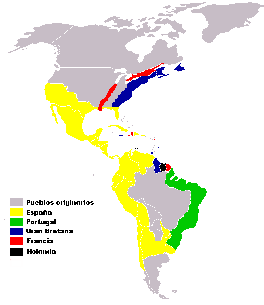 Map of European colonies in the Americas in the 16th through 18th centuries